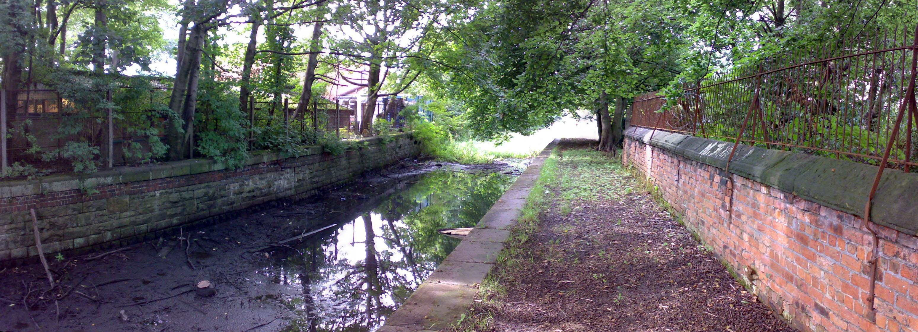 Looking north from under Agecroft Road Bridge, the towpath has recently been cleared.